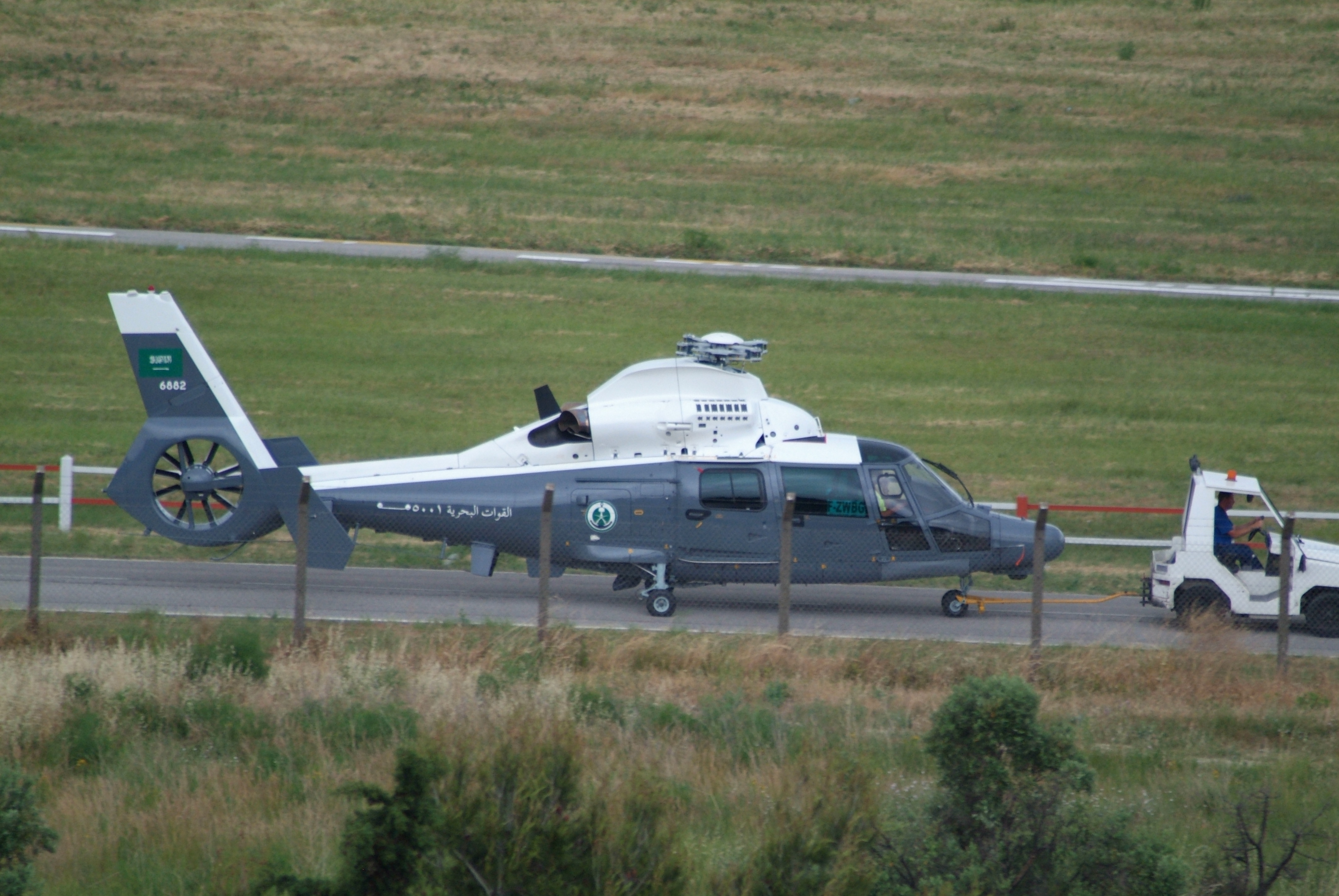 This helicopter was being towed around the airport at Marseille from a storage hangar back to the main Eurocopter factory